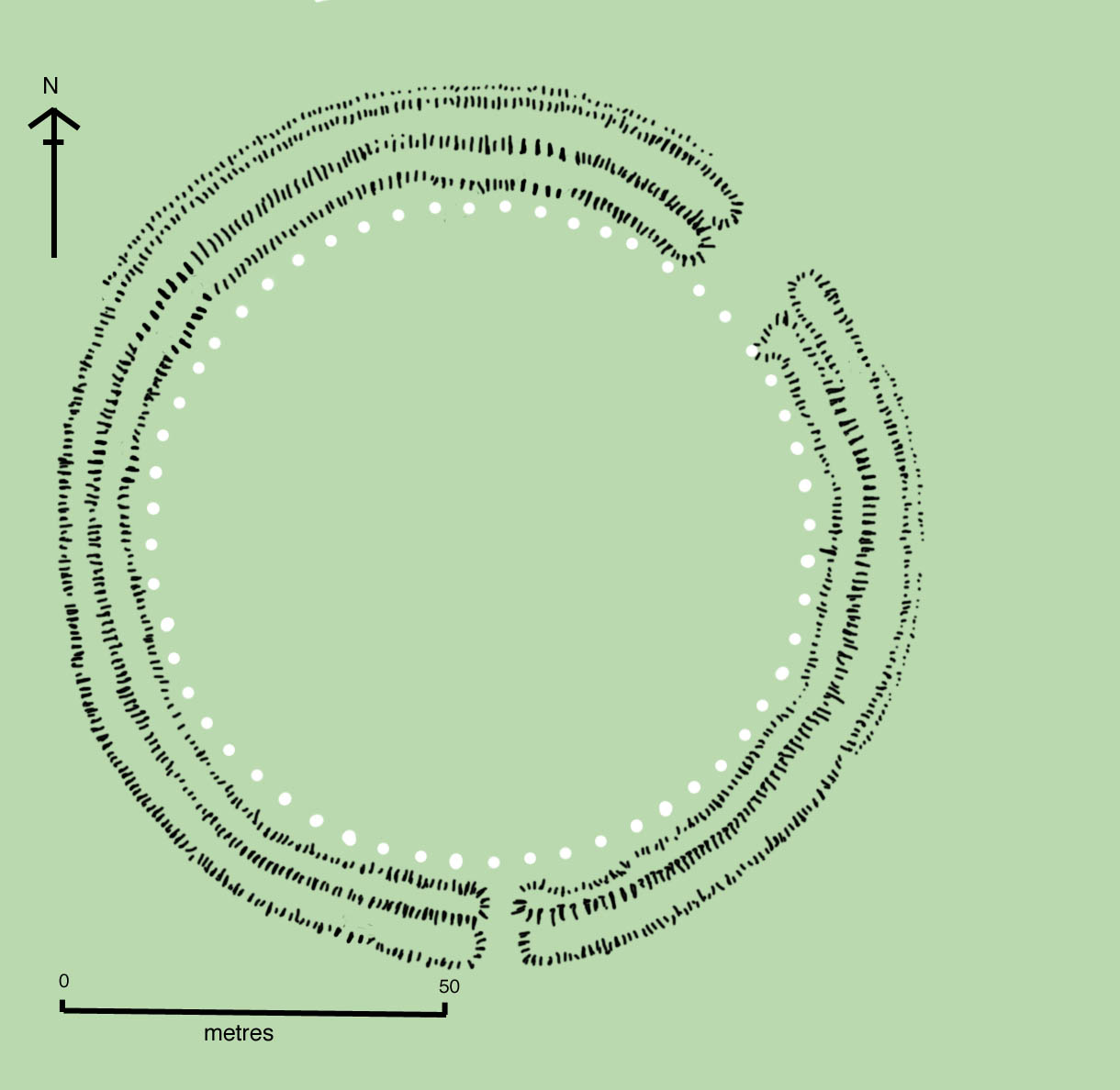 The plan shows the first of the three Stonehenge construction phases archaeologists think took place.